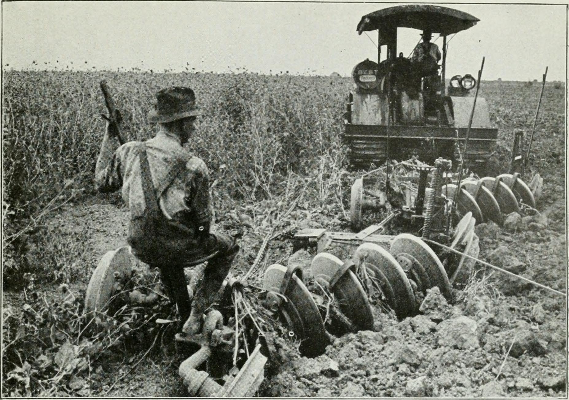 Plowing an alfalfa field by tractor Title: Collier's new encyclopedia : a loose-leaf and self-revising reference work ... with 515 illustrations and ninety-six maps Year: 1921 (1920s) Authors: Subjects: Encyclopedias and dictionaries Publisher: New York : P. F. Collier Text Appearing Before Image: ' Text Appearing After Image: ©Ewiitg Calloway PLOWING AN ALFALFA FIELD BY TRACTOR